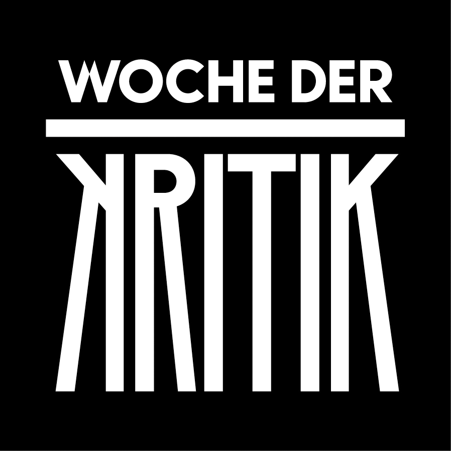 official logo "Berlin Critics´Week"